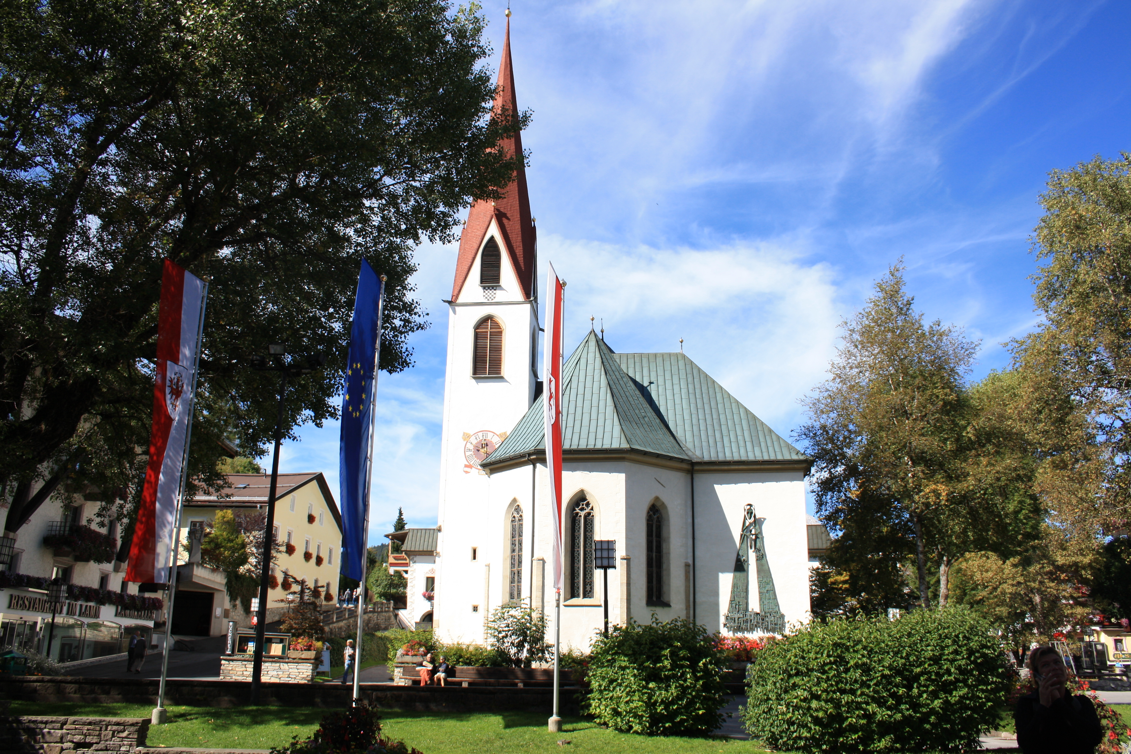 Austria, Tyrol (state), Seefeld in Tirol, Sankt Oswald. The centre of the village back the Parish.